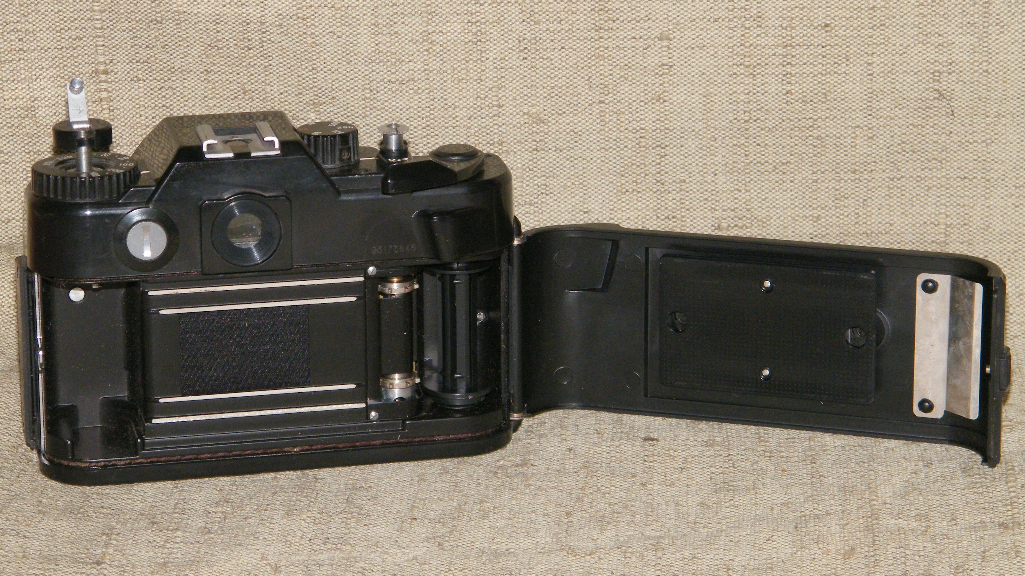 Zenit 122